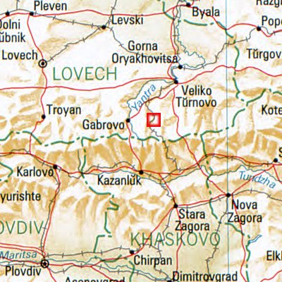 Bulgaria 1994 CIA map, city: part of the map Bulgaria_1994_CIA_map.jpg This image is in the public domain because it contains materials that originally came from the United States Central Intelligence Agency's World Factbook.